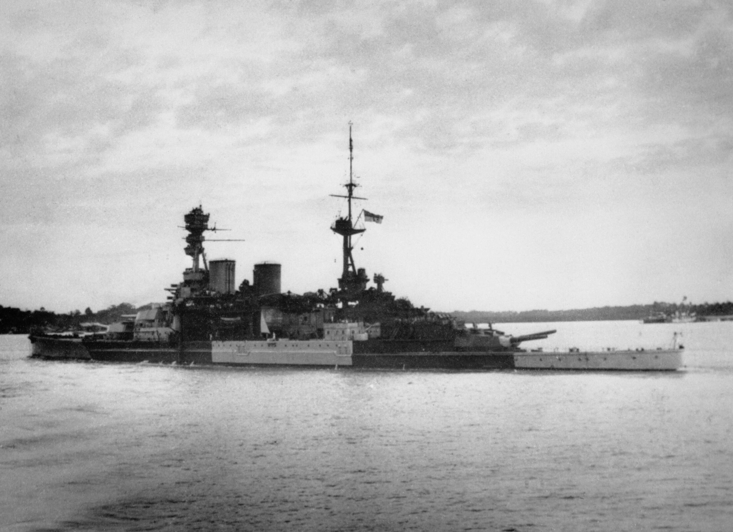 British battlecruiser HMS Repulse sailing from Singapore on her last operation. Two days later she was sunk with great loss of life by Japanese aircraft along with HMS Prince of Wales.